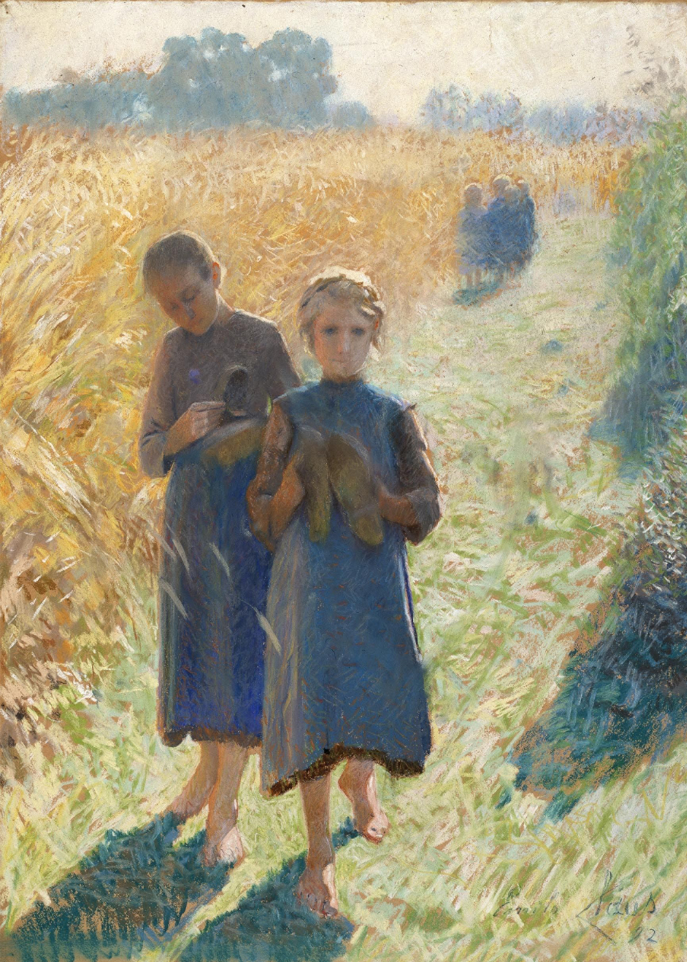 Painting by Belgian impressionist Emile Claus.